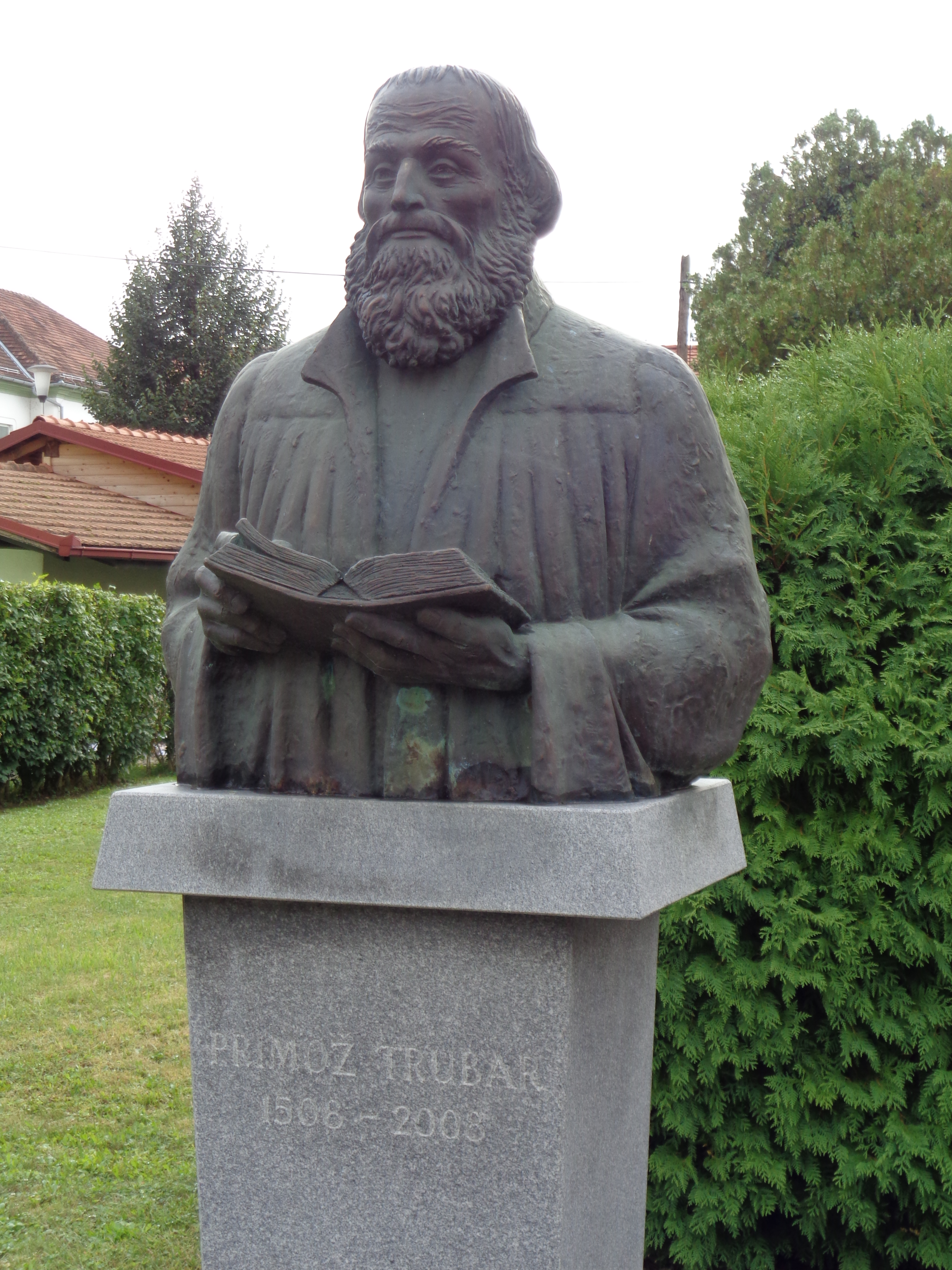 Primož Trubar, Slovenian protestant reformer and writer - bust in Lendava, Slovenia